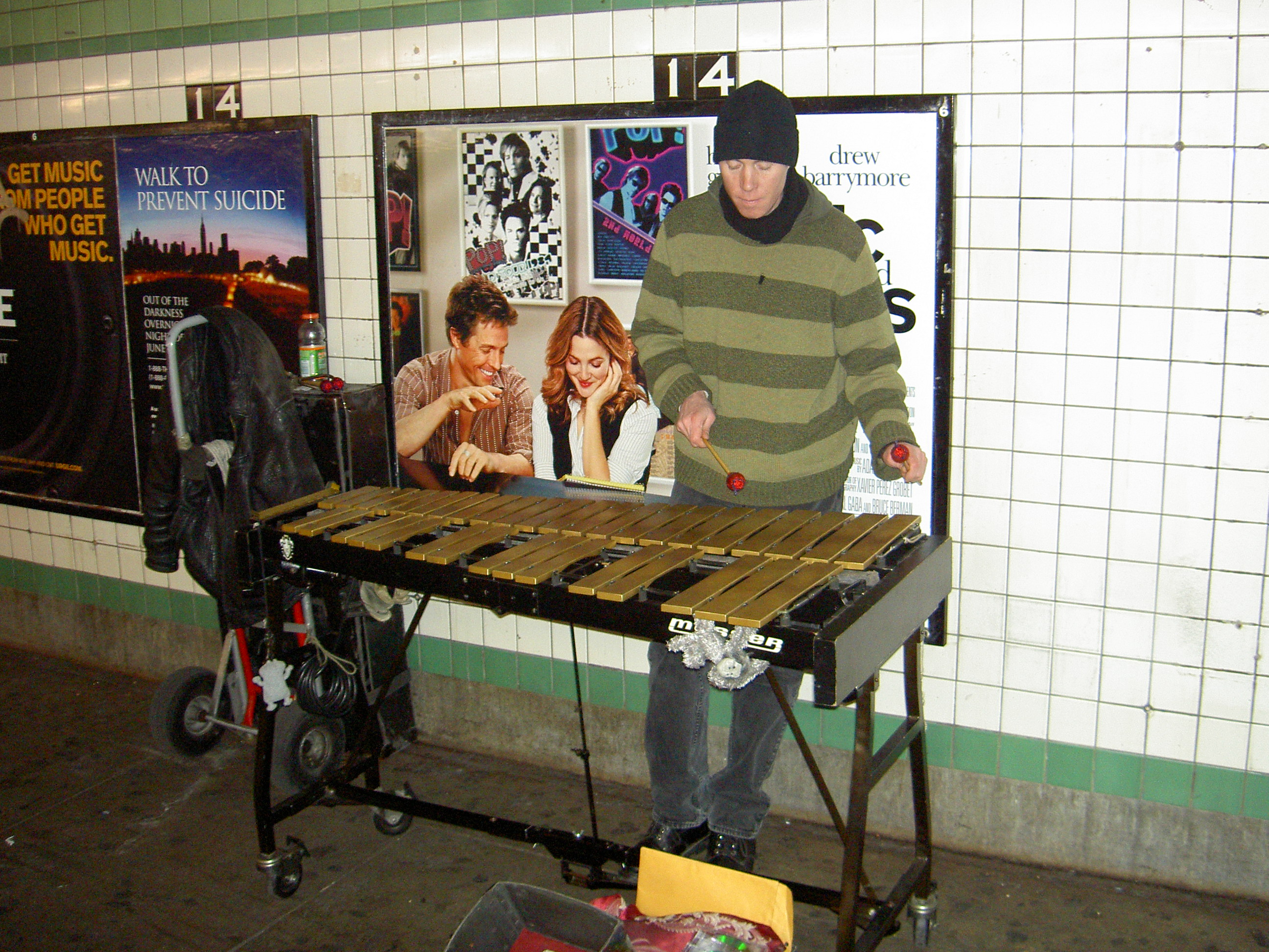 Metallophone player in 14th Street Station by David Shankbone